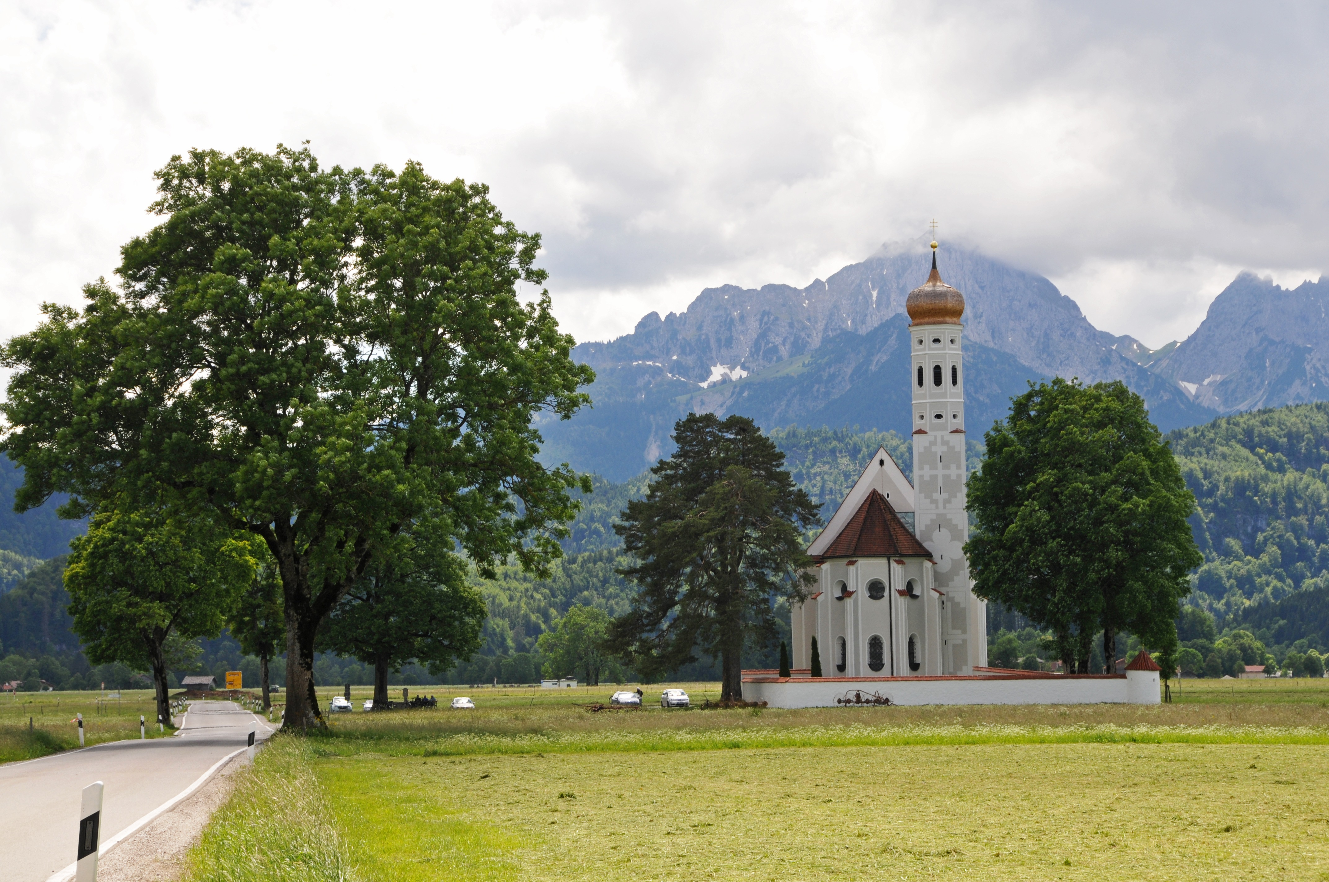 St. Coloman, Schwangau (Germany), after renovation on the occasion of 1000 years death of St. Coloman